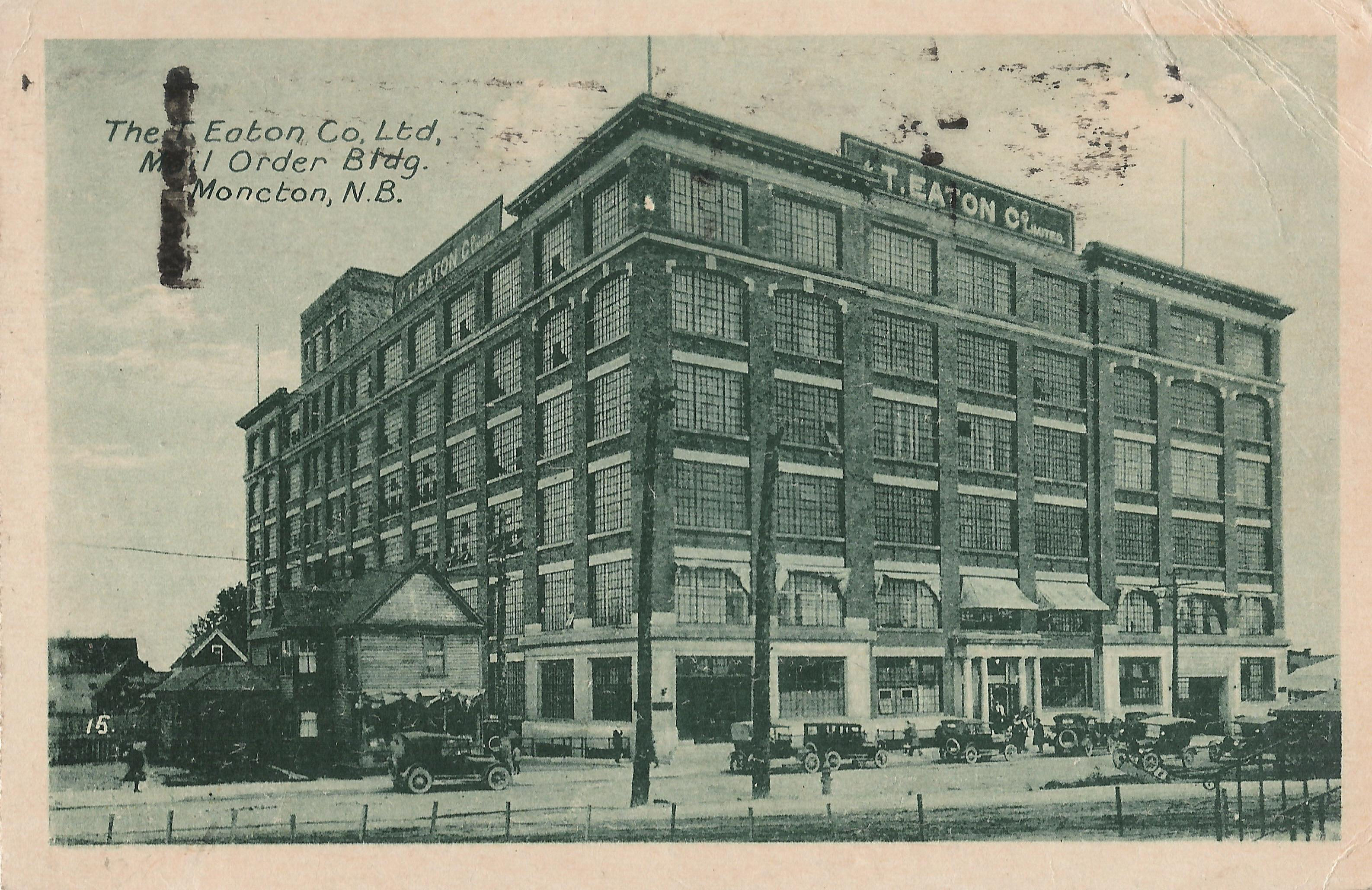 T. Eaton Co. Ltd. Mail Order Building, Moncton, New Brunswick, Canada.